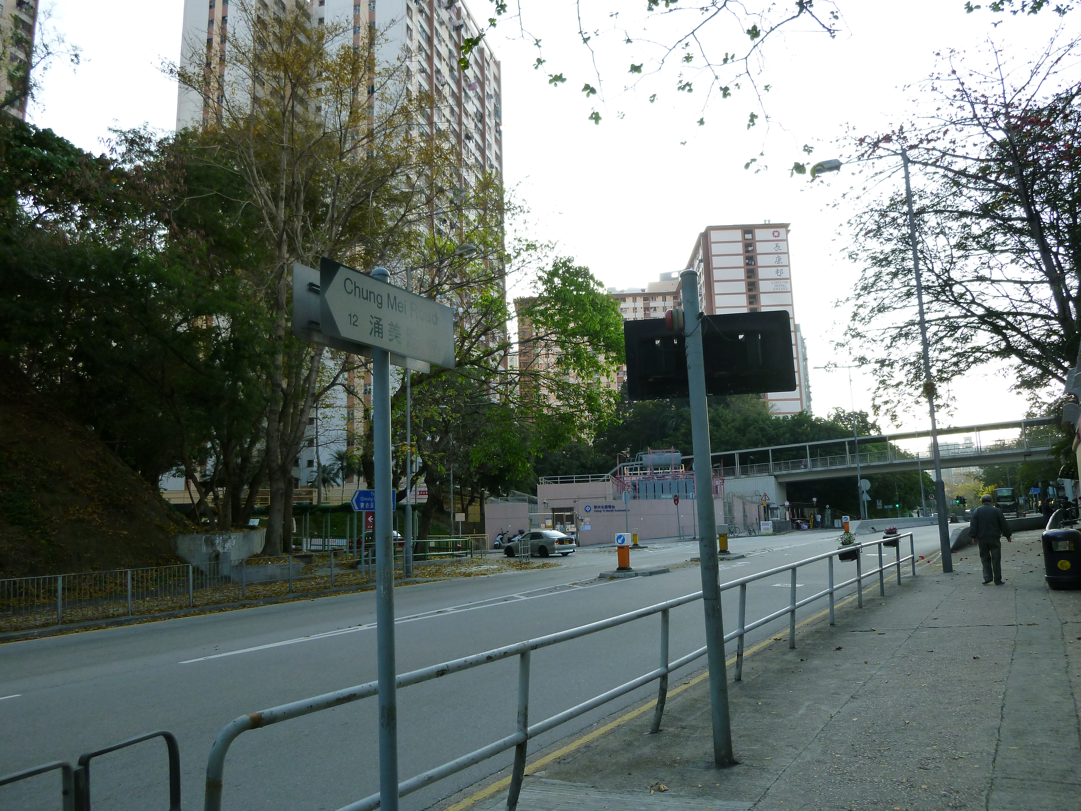 Chung Mei Road (Tsing Yi, Hong Kong)